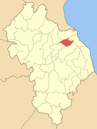 Locator map of Ampelakion Community (Κοινότητα Αμπελακίων) at Larisa perfecture, Greece.